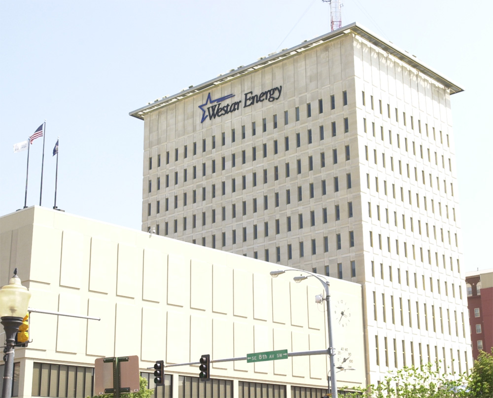 Westar Energy building in downtown Topeka, Kansas, USA.